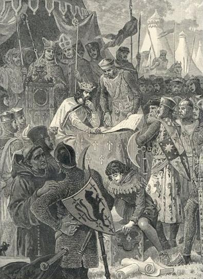 John of England signs Magna Carta. Image from Cassell's History of England - Century Edition - published circa 1902 Scan by Tagishsimon, 23rd June 2004